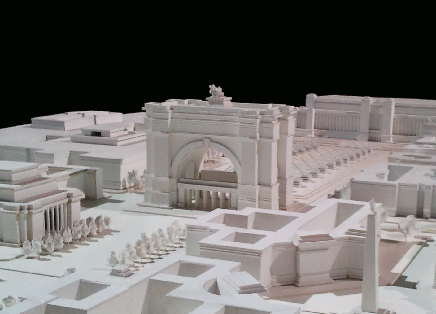 The triumphal arch at the southern end of the avenue, between the southern railway station and the Volkshalle (North-South Axis). The entire architectural model is composed of three parts resp. segments: The central part (from the triumphal arch to the Volkshalle) was built for the 2004 movie Downfall (Oliver Hirschbiegel) and is not a fully accurate realization of the Generalbauinspektor's plan. For the 2005 movie "Speer und Er" (Heinrich Breloer) the model was expanded with the significantly more precise southern and northern railway stations and its forecourts. Part of the Myth "Germania" and the "Temple City" of Nuremberg exhibition at the Documentation Center in Nuremberg (April 7, 2011 - September 11, 2011).